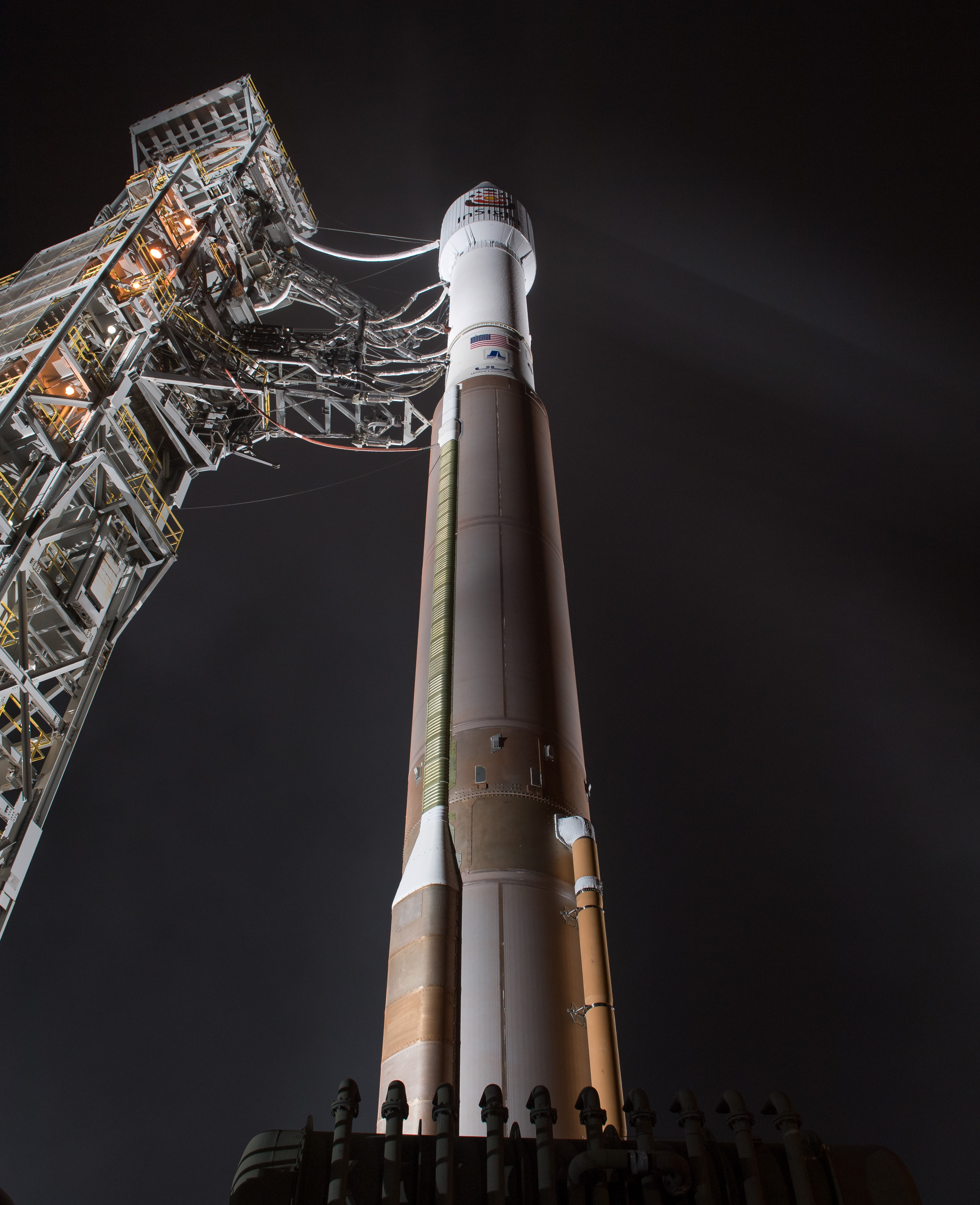 The United Launch Alliance (ULA) Atlas-V rocket with the NASA InSight spacecraft onboard is seen shortly after the mobile service tower was rolled back, Friday, May 4, 2018, at Vandenberg Air Force Base in California. InSight, short for Interior Exploration using Seismic Investigations, Geodesy and Heat Transport, is a Mars lander designed to study the "inner space" of Mars: its crust, mantle, and core.